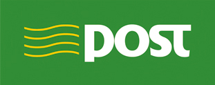 logo of An Post the Irish postal authority